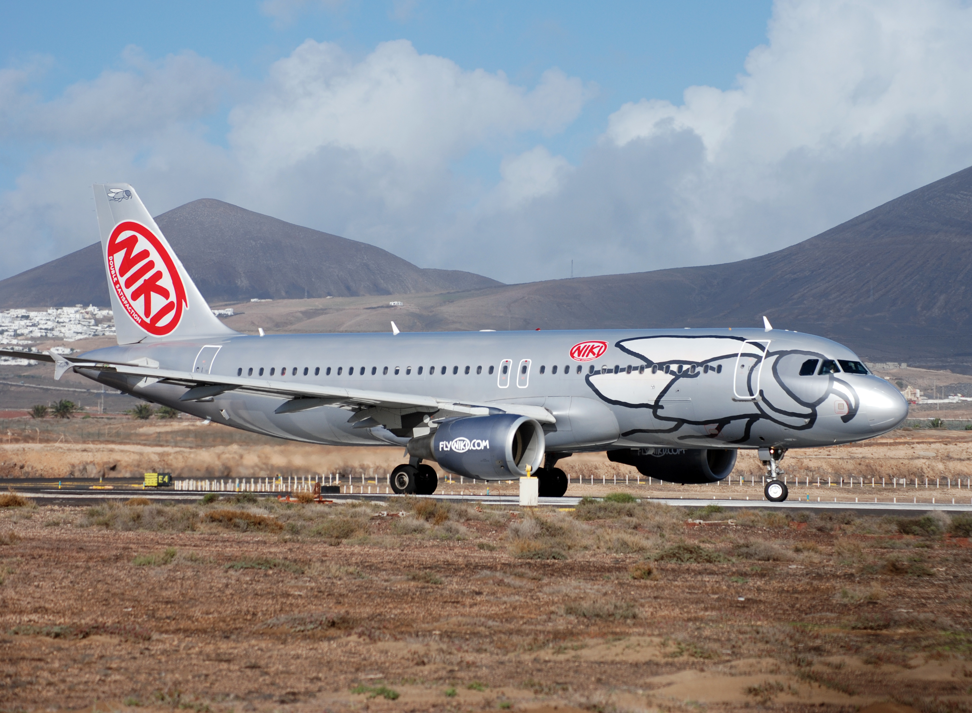 at the 03 end,Lanzarote,Boxing Day 2009